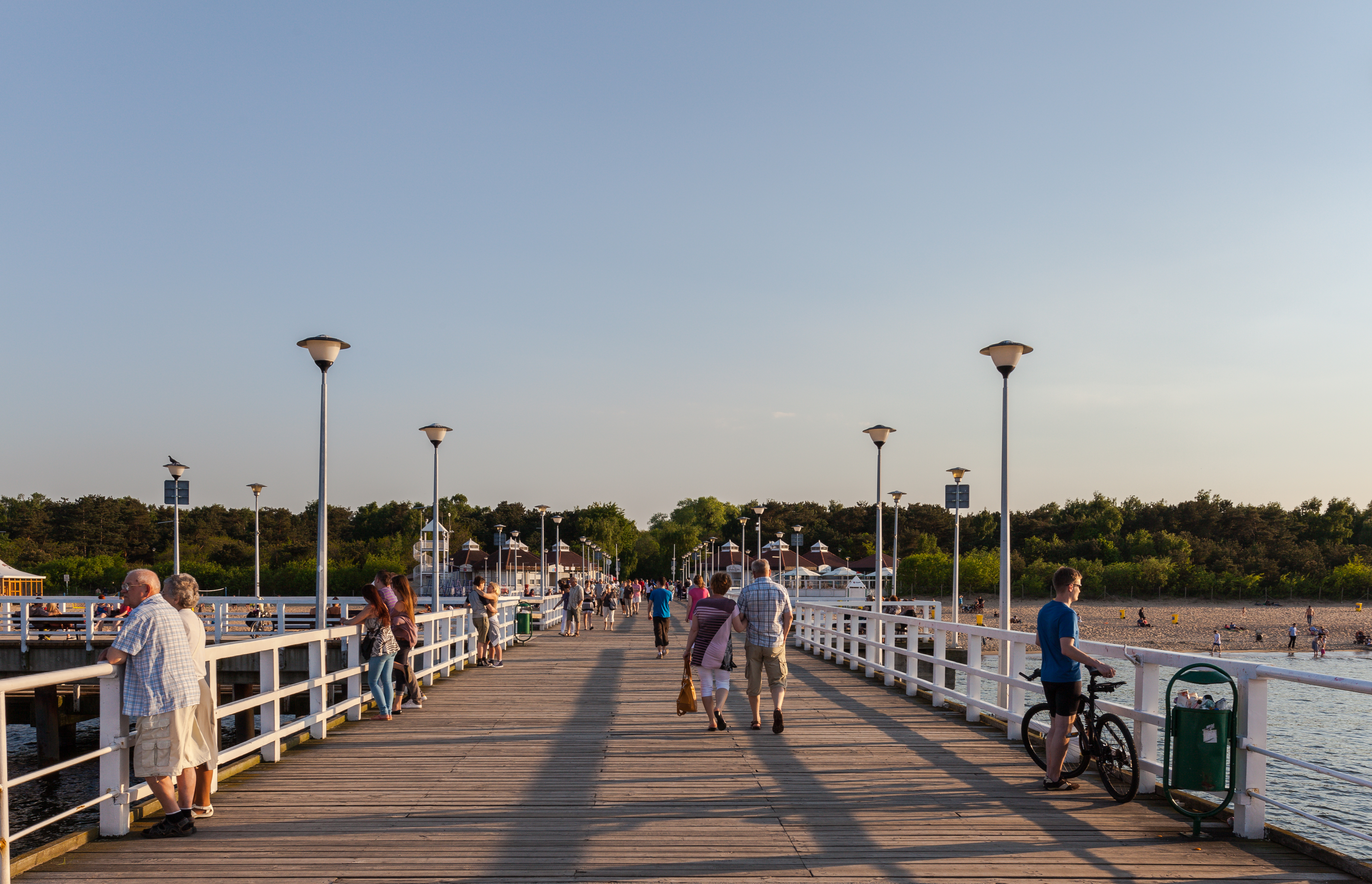 Promenade pier of Brzezno, Gdansk, Poland